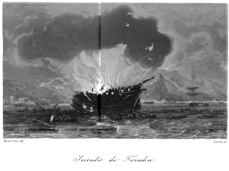 The Trocadéro explodes. Illustration from La Marine, by Pacini.